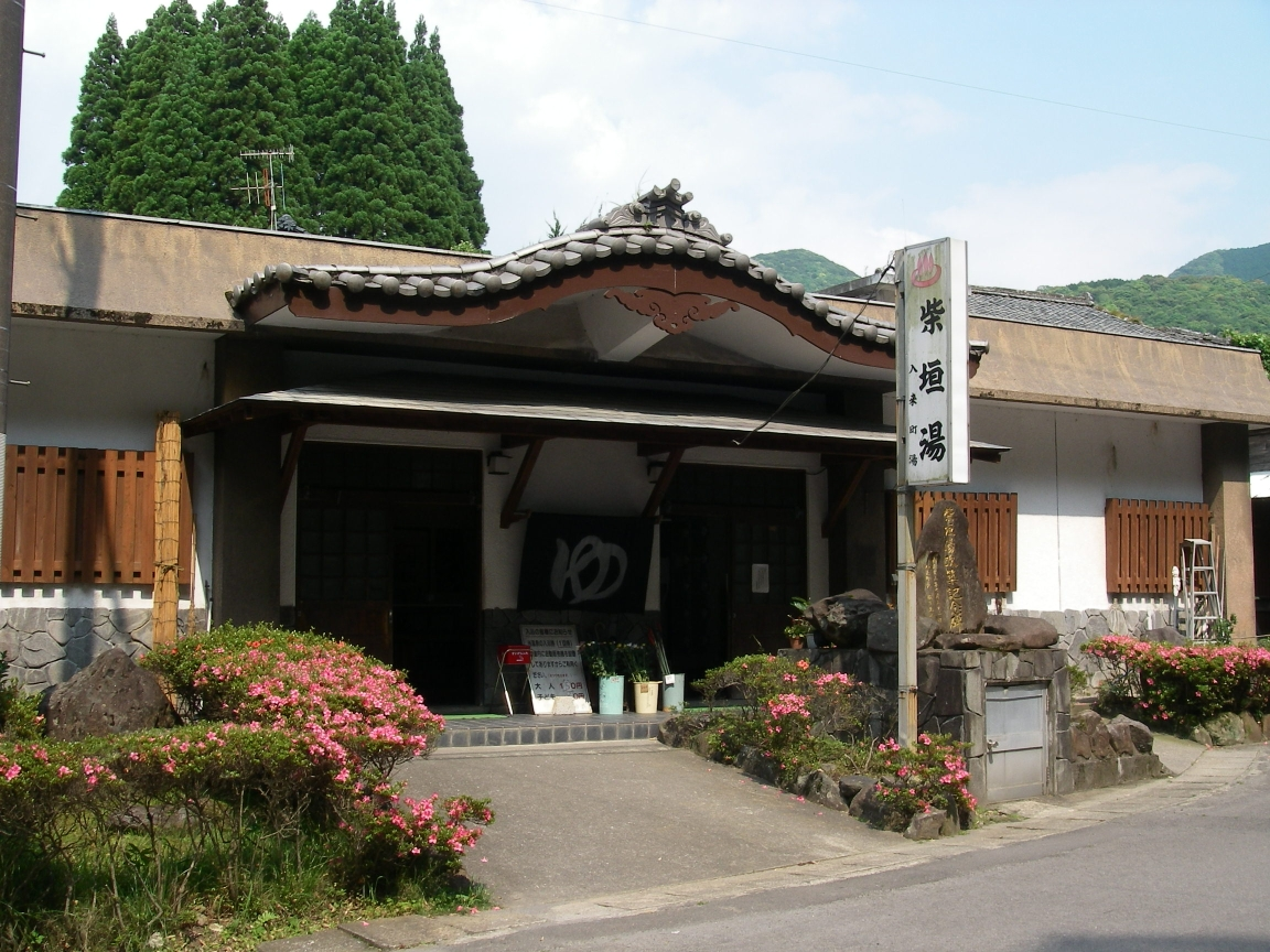 Shibagakiyu, Iriki onsen hotsprings, Satsumasendai city, Kagoshima prefecture, Japan